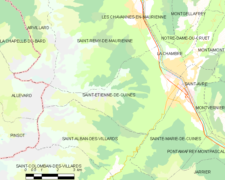 Map of French municipality